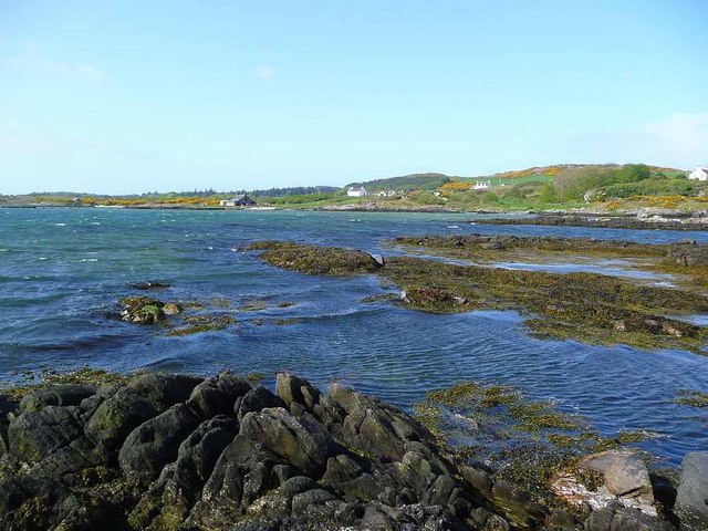 Ardminish Bay, Gigha, on a blustery day